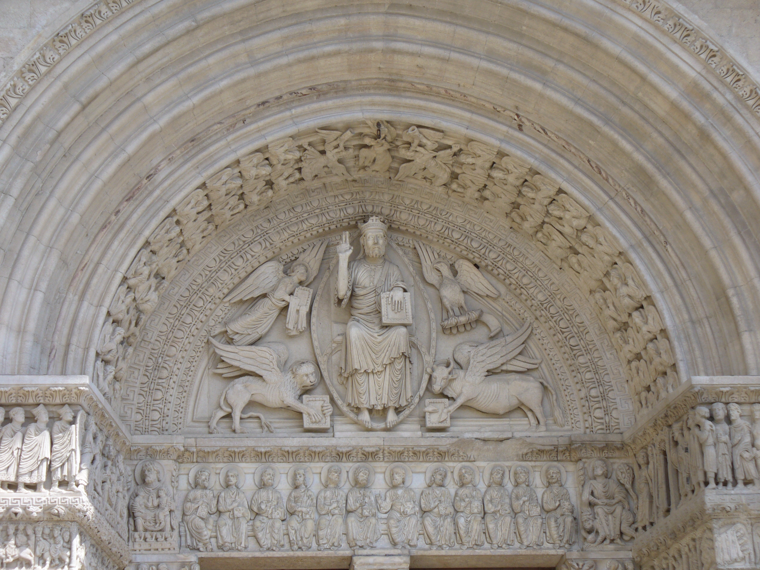 Arles - Kathedrale St.Trophime